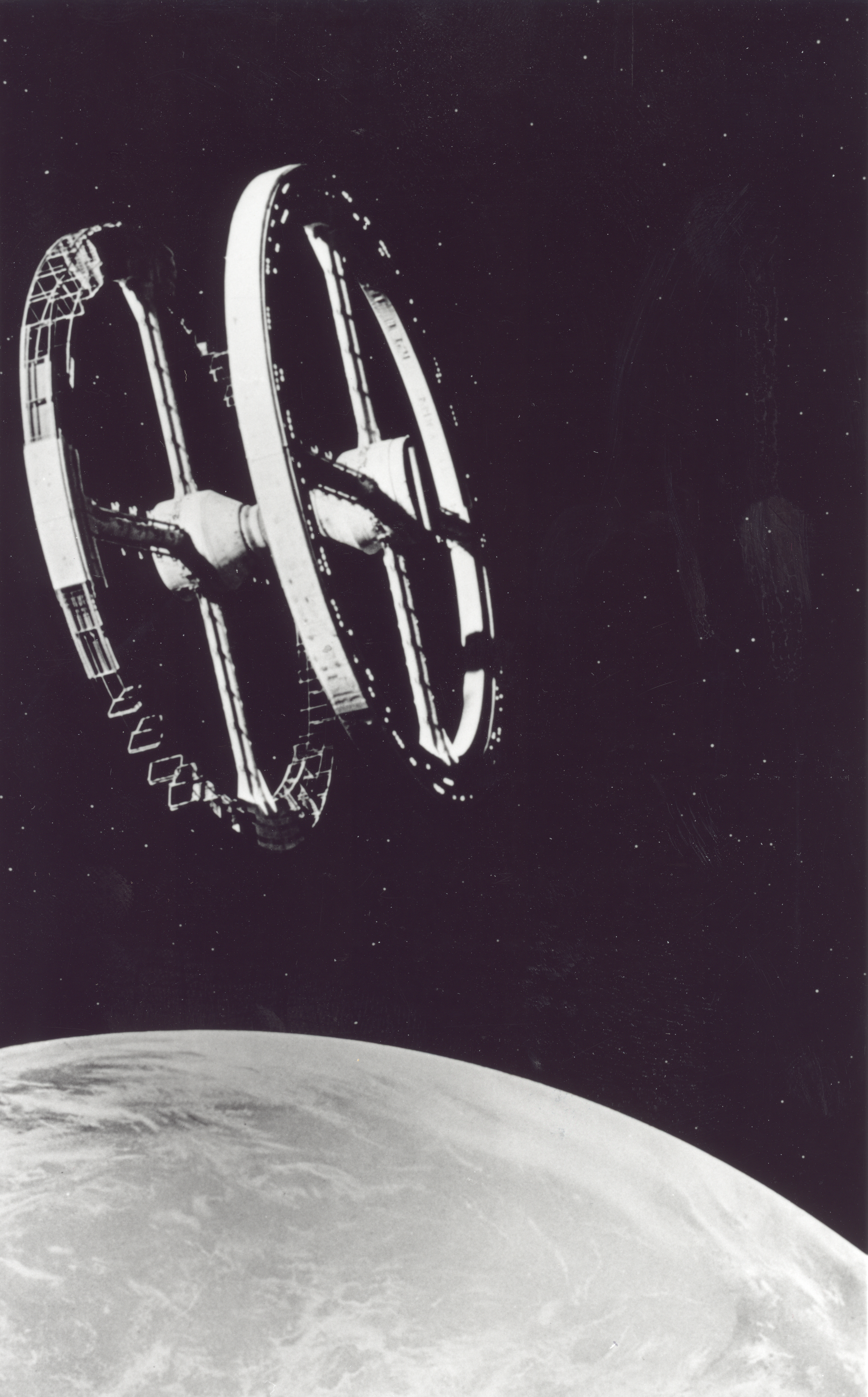 This the classic space station image from the movie 2001:a Space Odyssey, directed by Stanley Kubrick in 1968. Praised for its special effects, the movie based its space station concept on Wernher Von Braun's model. Kubrick's station in the movie was 900 feet in diameter, orbited 200 miles above Earth, and was home to an international contingent of scientists, passengers, and bureaucrats. Image # : 2001SpaceStation